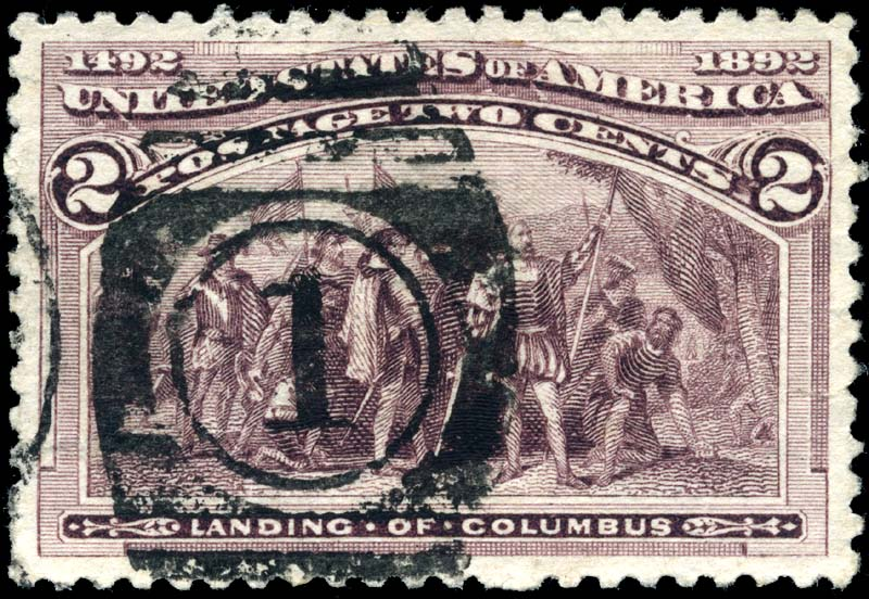 United States 2c stamp of 1893 Columbian issue